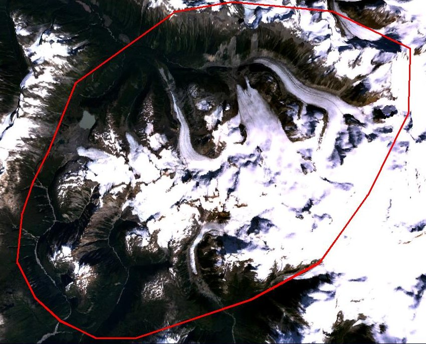 Outline of the Silverthrone Caldera